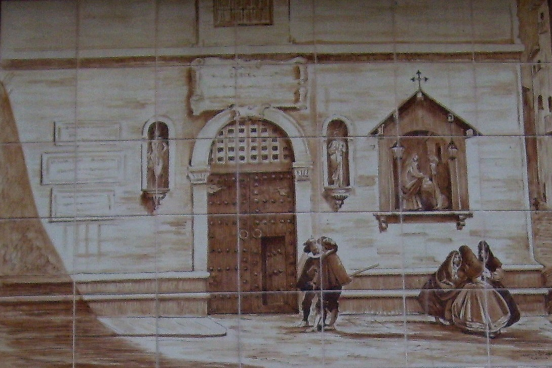 Foto de la placa que hay en donde se encontraba la antigua Cárcel Real de Sevilla. Se muestra cómo era la Cárcel en el siglo XVI.